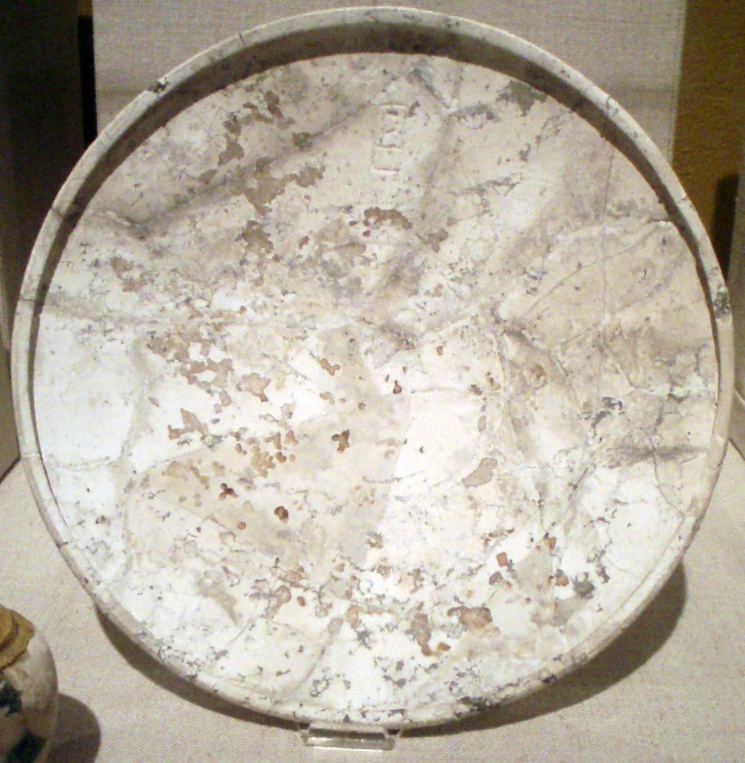 Dolomite bowl bearing the name of the pharaoh Khaba, inscribed within a serekh. From the 3rd dynasty, circa 2680-2613 B.C., originally from Zawiyet el-Aryan, now residing in the Museum of Fine Arts, Boston. (From Pharaoh Khaba's article: reign: 4 year reign between 2643-2637 BC).